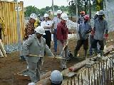 Former United States Ambassador Arlene Render shovels the first dirt from the site of the new embassy in Abidjan.